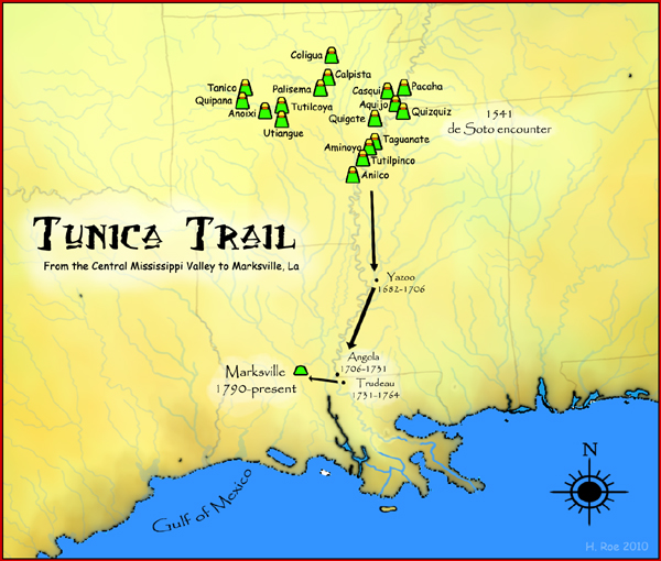 A map showing the route of the Tunica peoples from the Central Mississippi River Valley to Marksville, Louisiana.